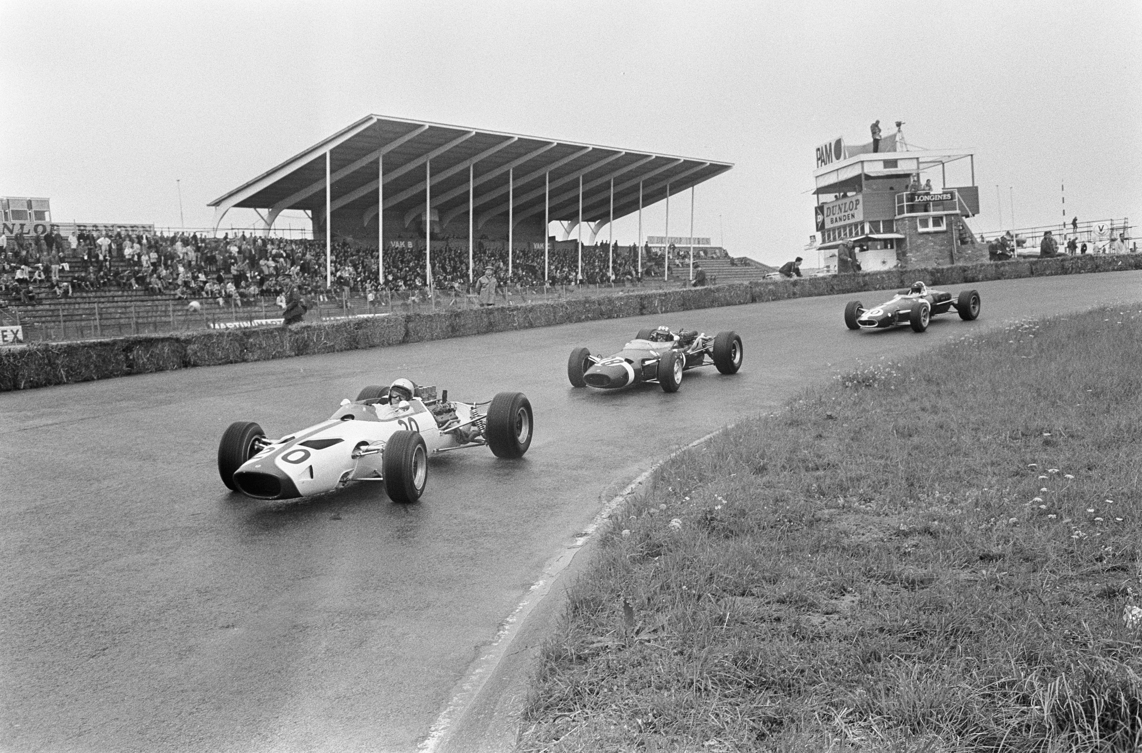 Bruce McLaren (McLaren M2B; #20), Jo Siffert (Cooper T81; #28) and Dan Gurney (Eagle T1G; #10) drive in practice for the 1966 Dutch Grand Prix at the Zandvoort circuit.